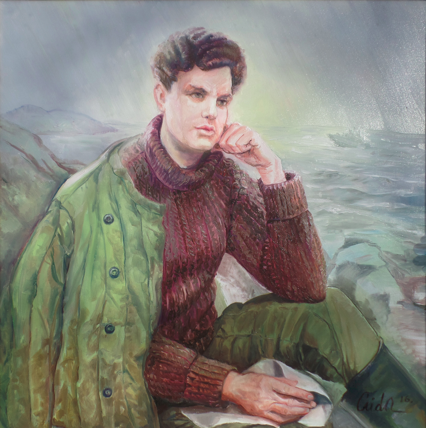 Портрет В. Н Леонова.